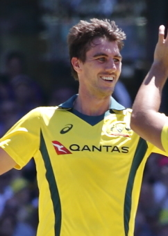 Pat Cummins, Steve Smith, et al celebrates Jason Roy's wicket